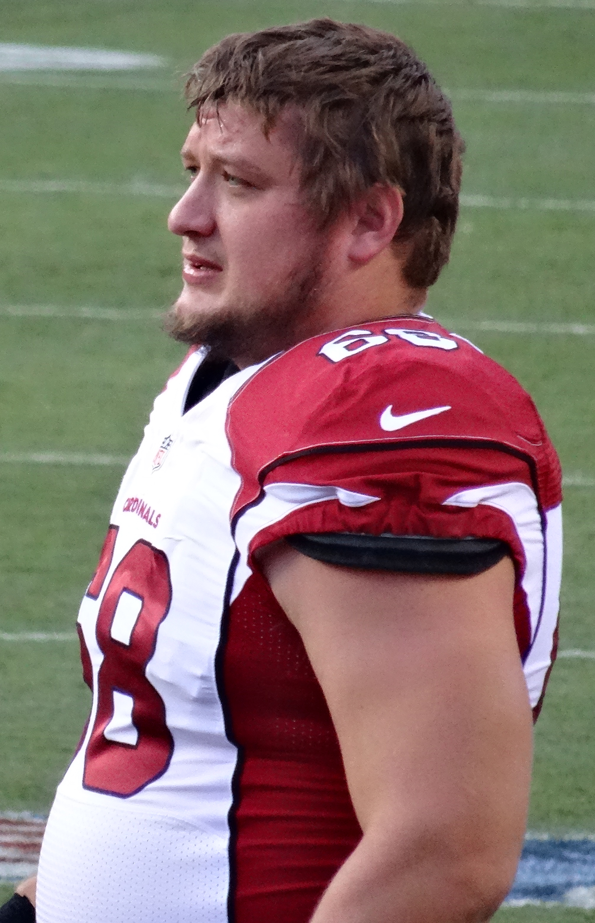 Adam Bice, a player on the National Football League.